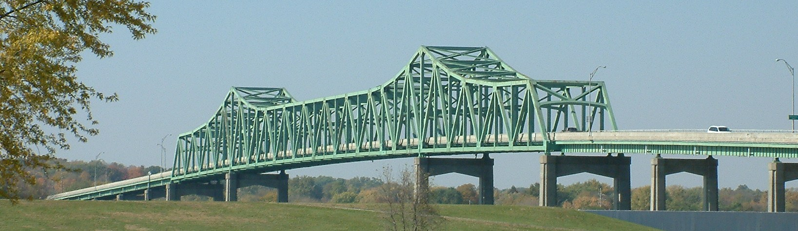 Mississippi River bridge connecting Fulton, Illinois to Clinton, Iowa